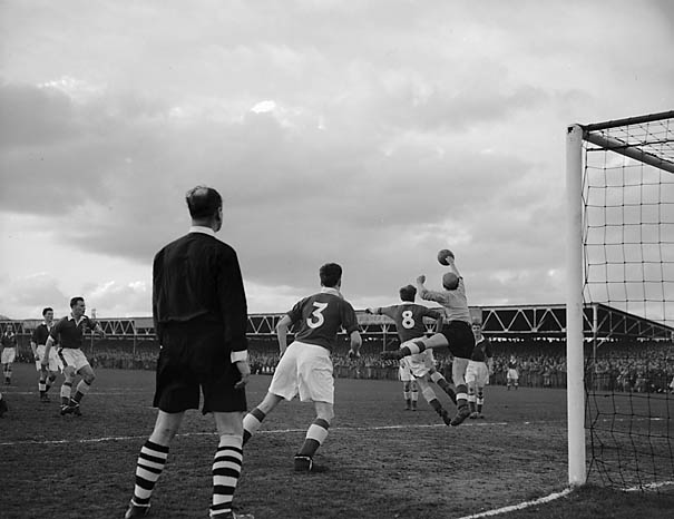 Teitl Cymraeg/Welsh title: Gêm bêl-droed ryngwladol Cymru yn erbyn Iwerddon yn Wrecsam Ffotograffydd/Photographer: Geoff Charles (1909-2002) Dyddiad/Date: 2/4/1954 Cyfrwng/Medium: Negydd ffilm / Film negative Cyfeiriad/Reference: (gch05901) Rhif cofnod / Record no.: 3367697 Rhagor o wybodaeth am gasgliad Geoff Charles yn Llyfrgell Genedlaethol Cymru More information about the Geoff Charles Collection at the National Library of Wales Mae ffotograffau Geoff Charles hefyd yn rhan o Broject Europeana Libraries Geoff Charles' photographs also form part of the Europeana Libraries Project